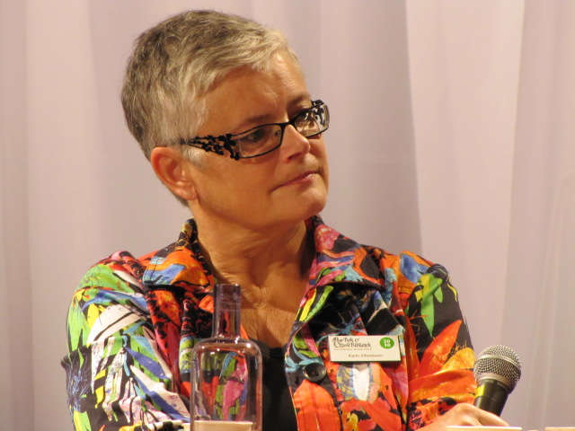 Swedish author and journalist Karin Alfredsson at the 2010 Gothenburg Book Fair.